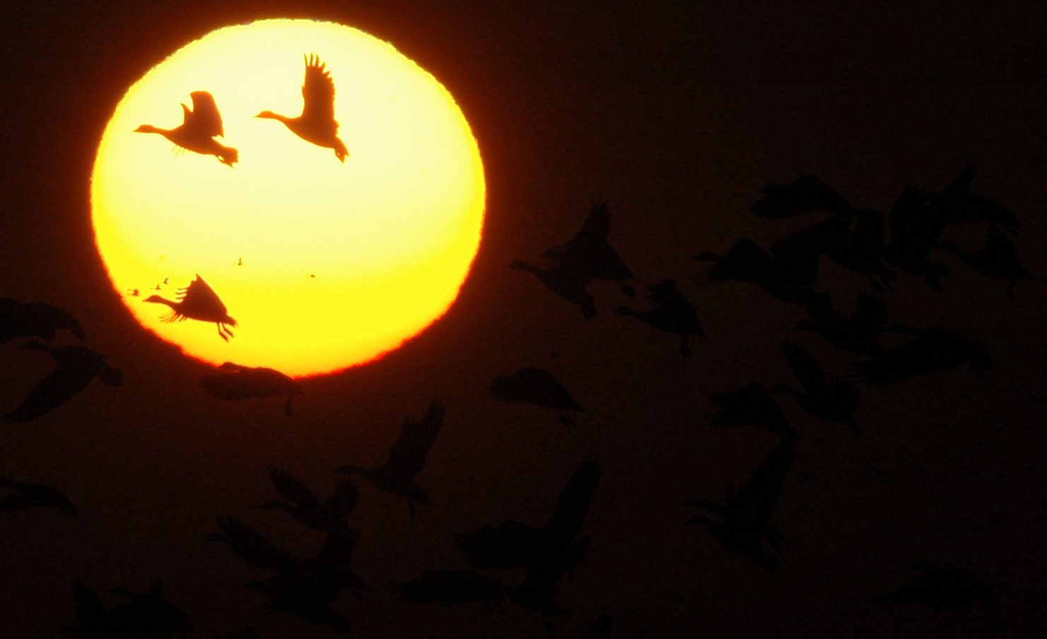 Photo By Area Manager Dave Feliz article: Yolo Bypass Wildlife Area